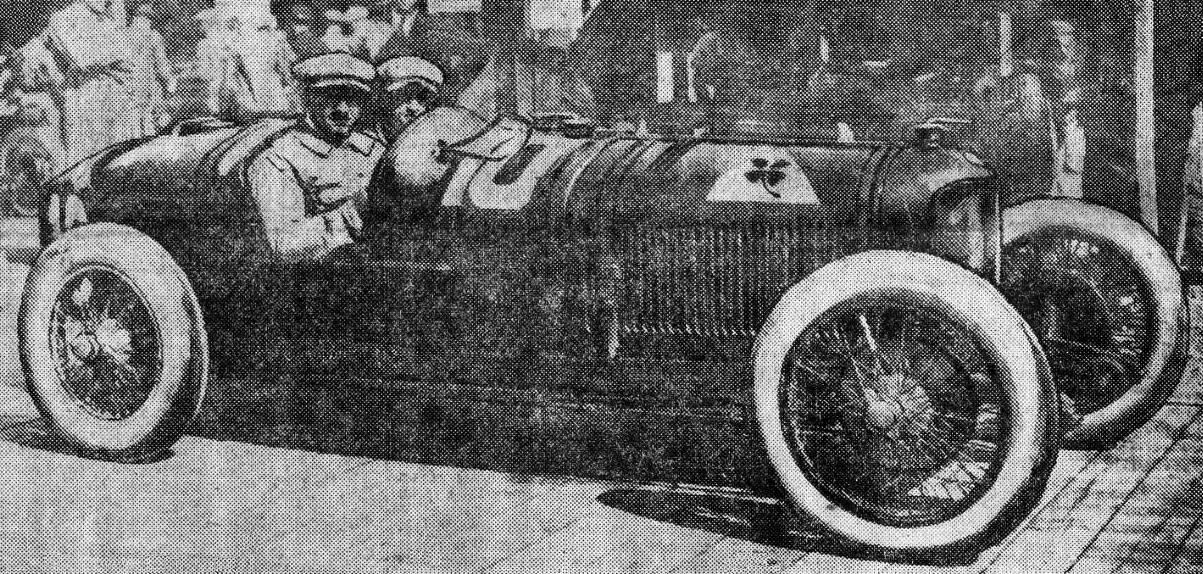 Giuseppe Campari won the French GP in Lyon on 4 August 1924 in this Alfa Romeo P2, one of the four brand new P2s that Alfa had registered to appear in this race (Ascari, Wagner, Ferrari).